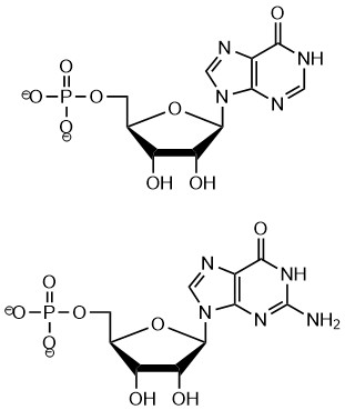 Structures of inosine-5'-monophosphate (top) and guanosine-5'-monophosphate (bottom).